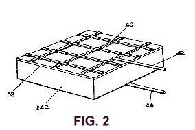 Centrifugal forming thin films for semiconductors and solar cells